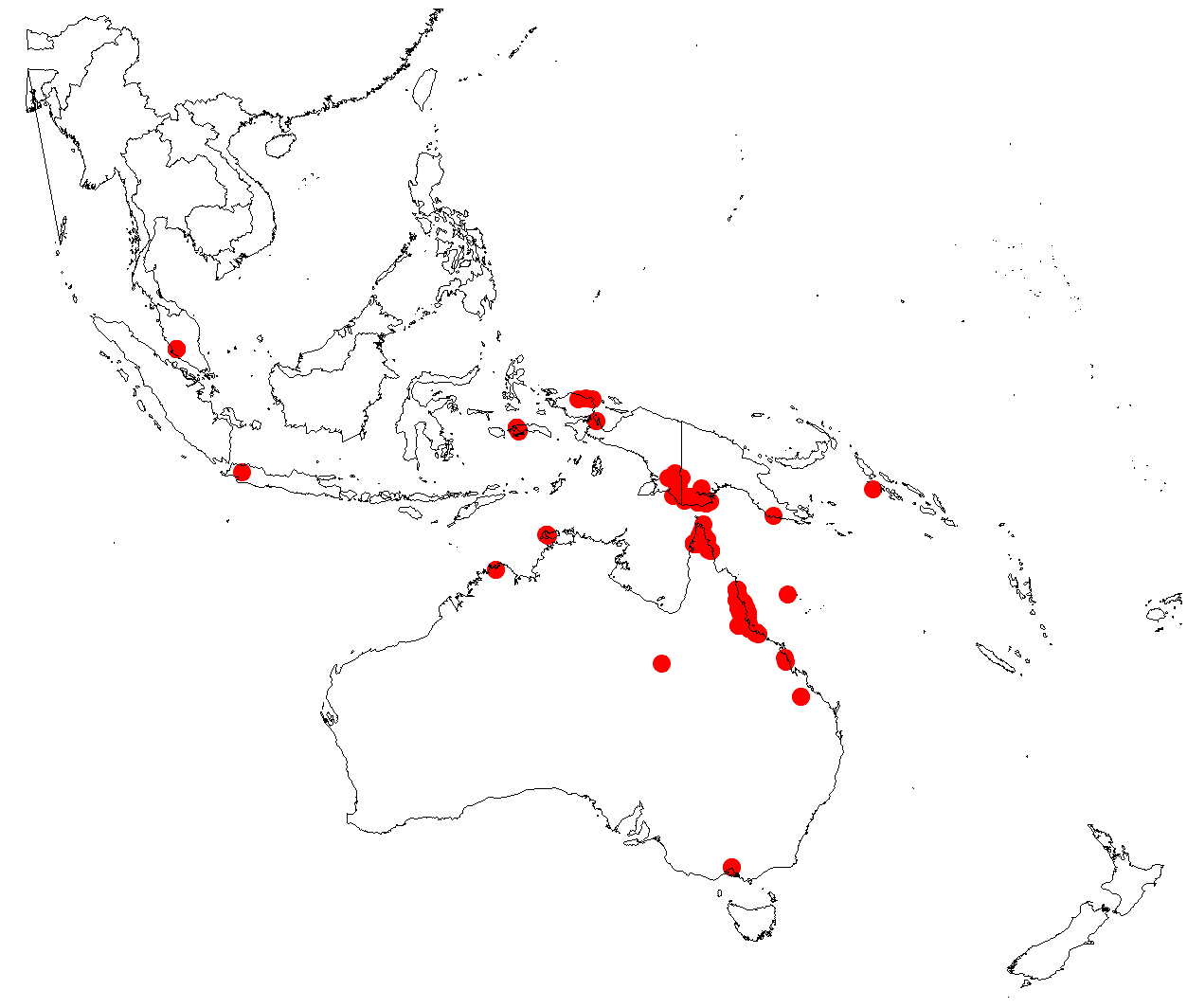 Acacia mabellae Occurrence data from Australasia Virtual Herbarium downloaded from on 8 December 2018